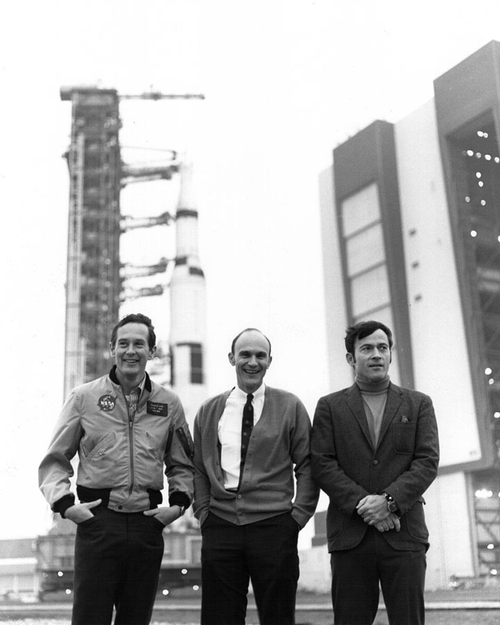 Charlie Duke (left), TK Mattingly, and John Young pose in front of the VAB during the second rollout. 9 February 1972.